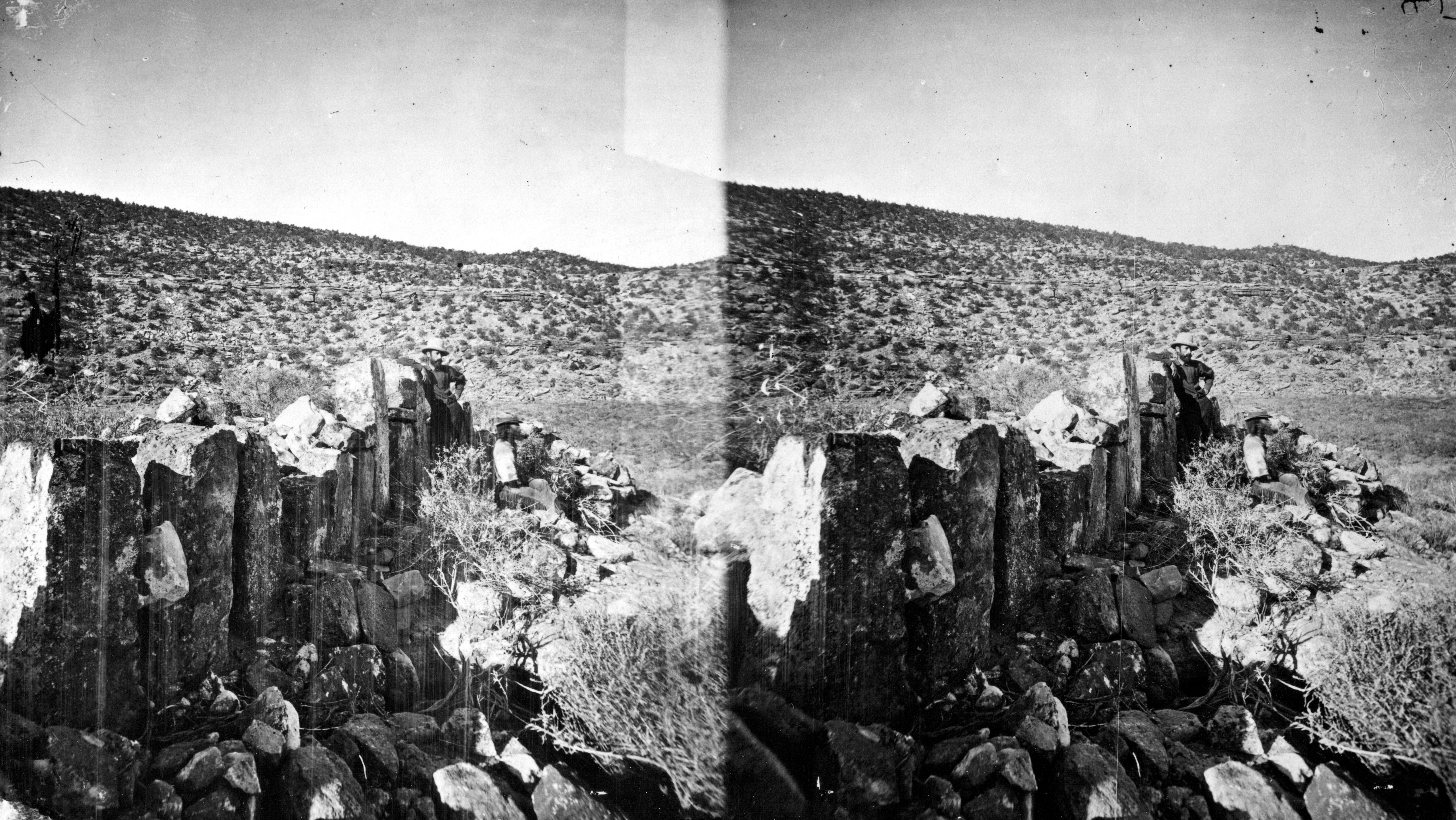 Ruins in Montezuma Canyon, containing stones of unusual size.E.A. Barber and Henry Lee in view. San Juan County , Utah. 1875.